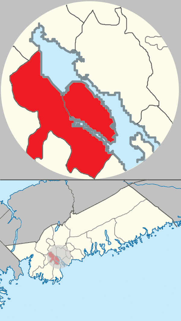 Updated map showing former boundaries of the City of Halifax.